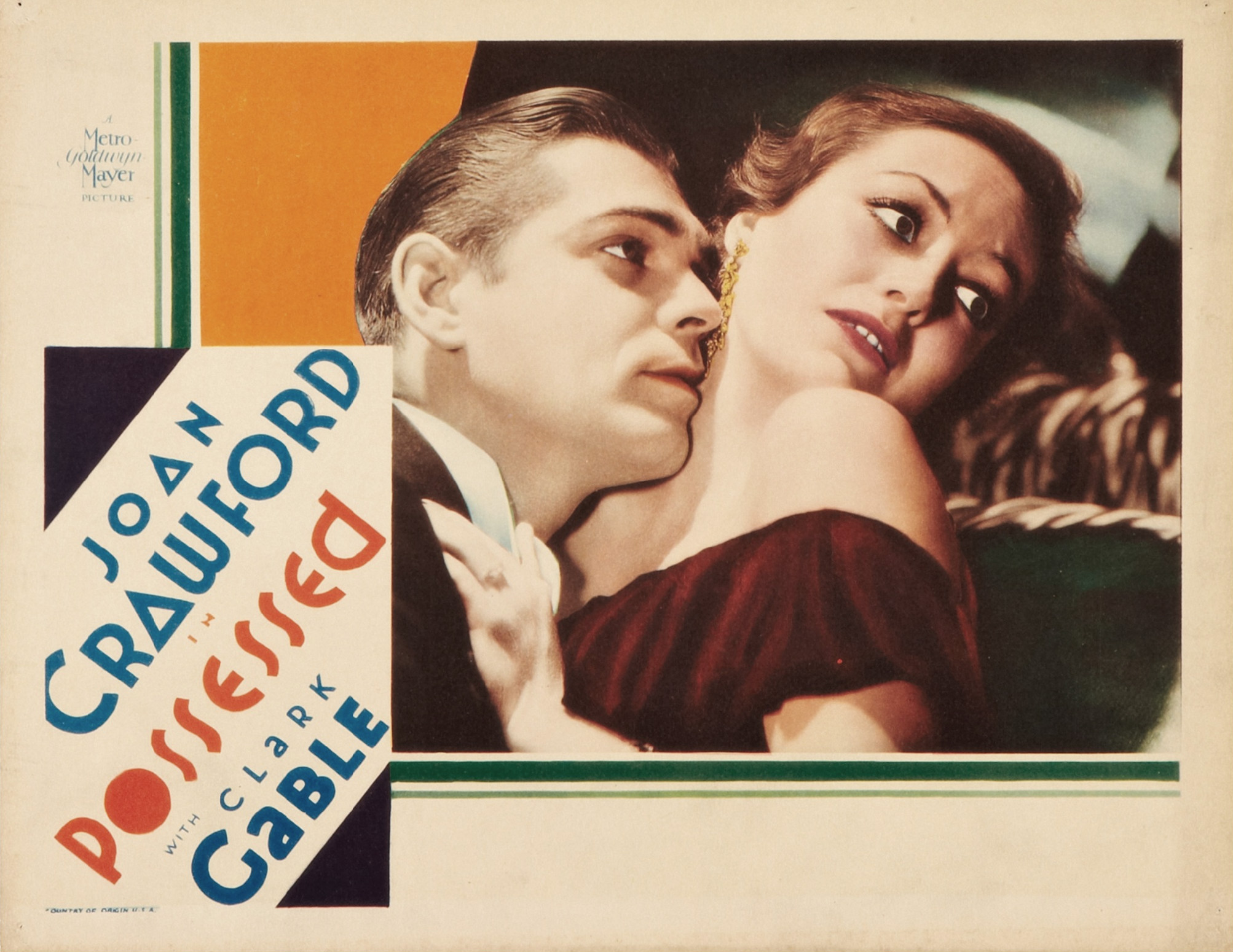 Lobby card for the 1931 film Possessed.